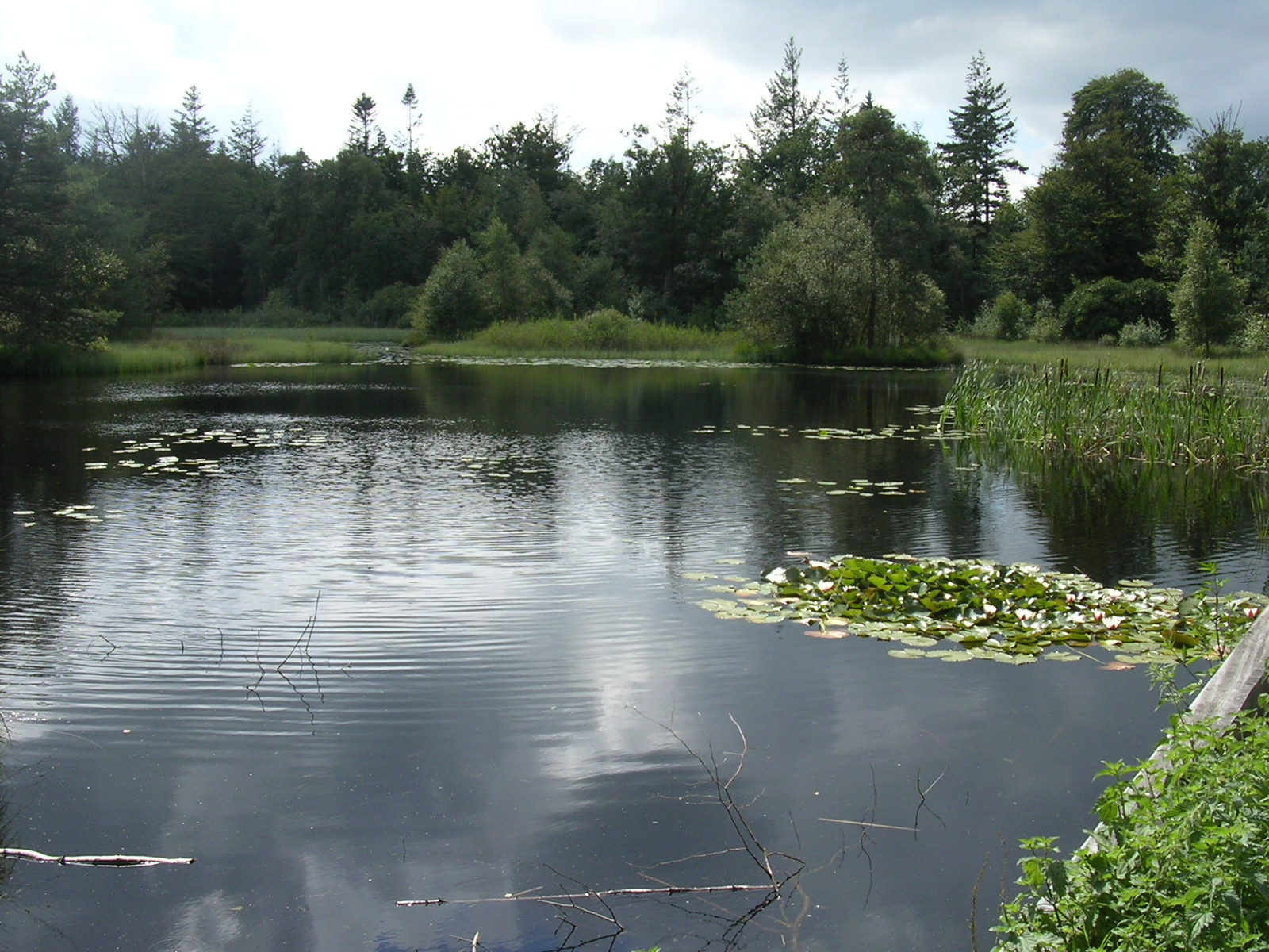 The Freulevijver in the forest near Bakkeveen